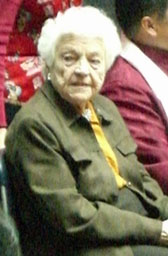 Hazel McCallion at Mississauga Civic Centre. McCallion has been Mississauga's mayor for 31 years, holding office since 1978. At the age of 85, she was easily reelected in November 2006 for her 11th consecutive term, holding a 92% majority of the votes.